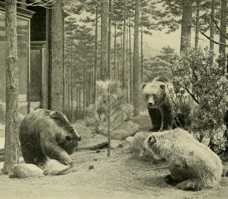 Mexican Grizzlies (Ursus arctos nelsoni) at the Field Columbian Museum